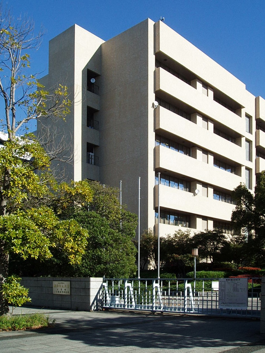 Fukuura Campus (Medical School) of Yokohama City University, located in Kanazawa-ku, Yokohama, Kanagawa, Japan.